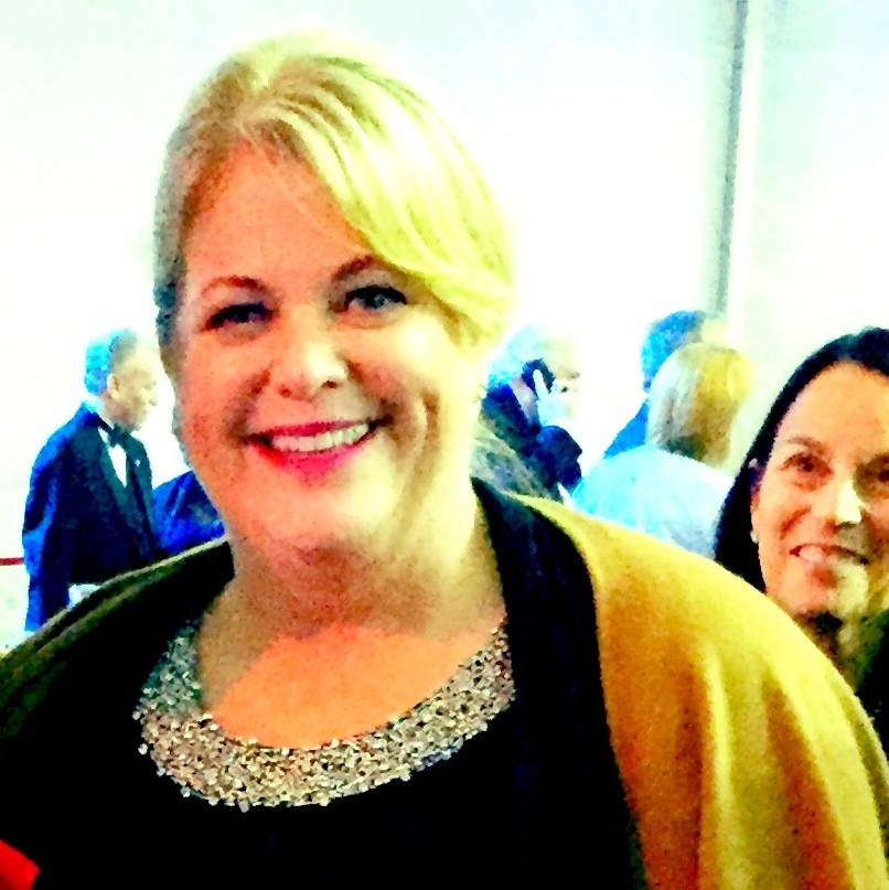 Wendy Thomas of the fast food restaurant chain, Wendy's, with Dr Parmis Khatibi in NYC for celebration honoring immigrants who have given back to the USA